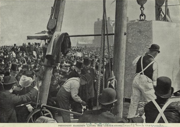 President Benjamin Harrison laying the cornerstone at Grant's Tomb